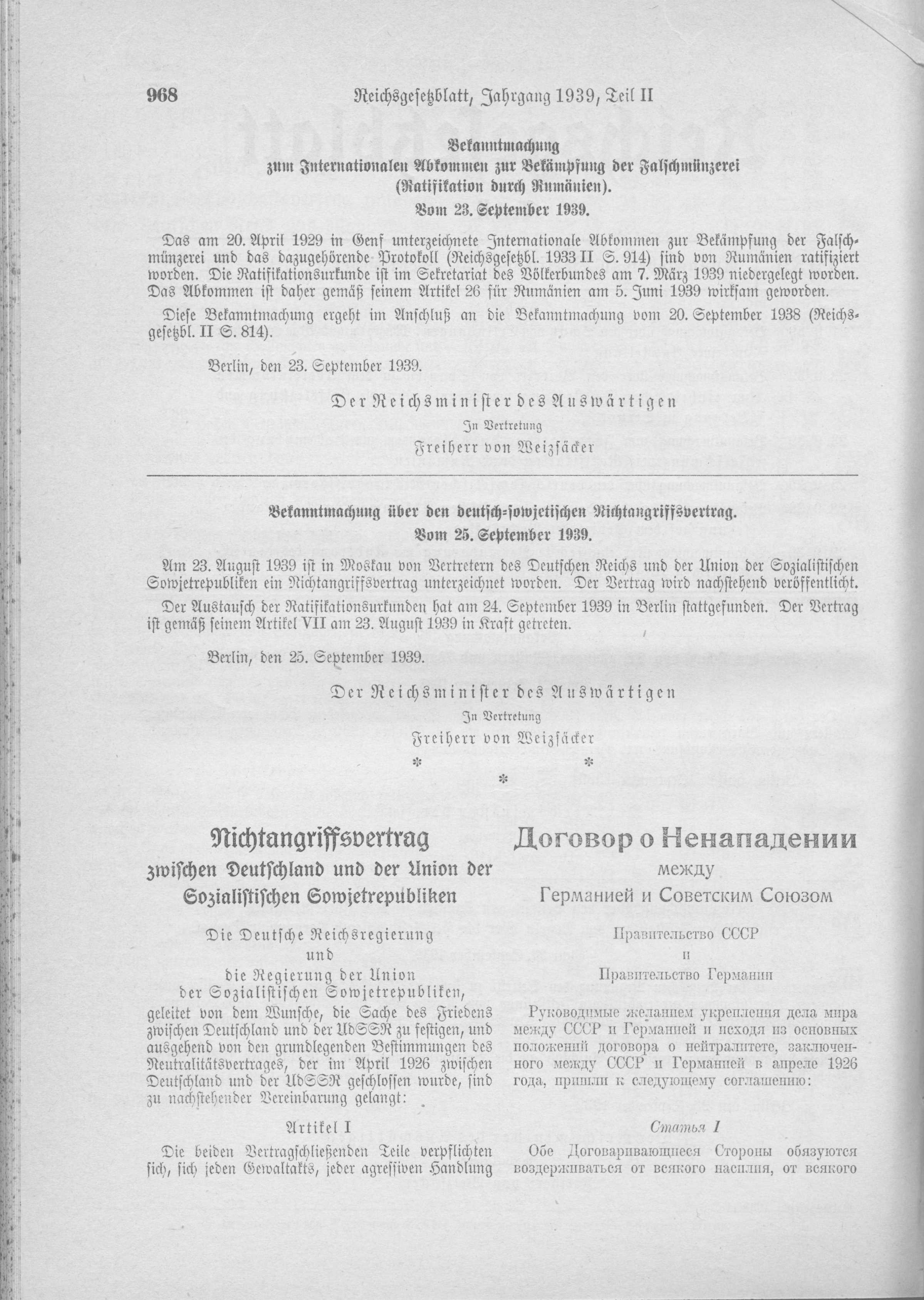 Scan from the Imperial Law Gazette of Germany, 1939, part 2